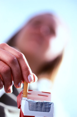 Maternal anti-smoking campaign